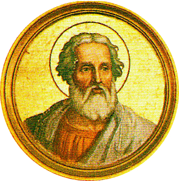 Portrait of Pope Soter un the Basilica of Saint Paul Outside the Walls, Rome